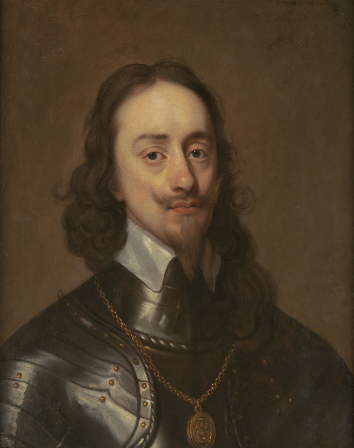 Charles I of England